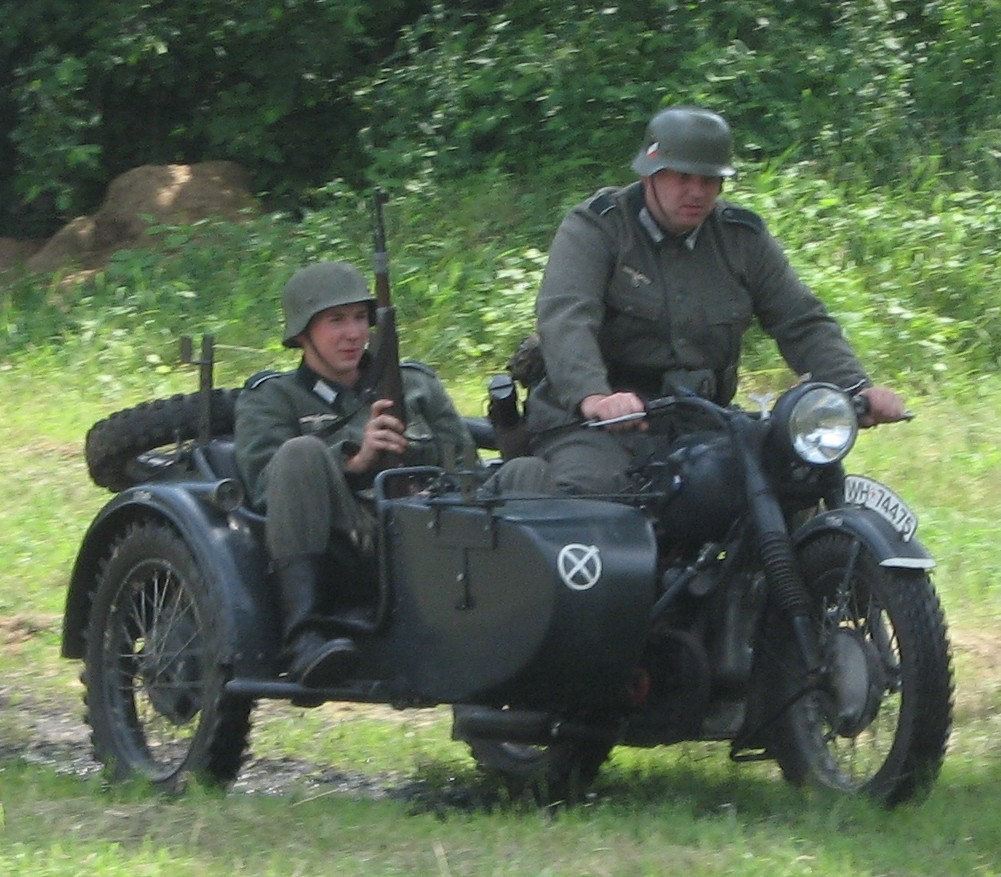 Reenactment of a battle fought during the 1939 Invasion of Poland. VII Aircraft Picnic in Kraków.